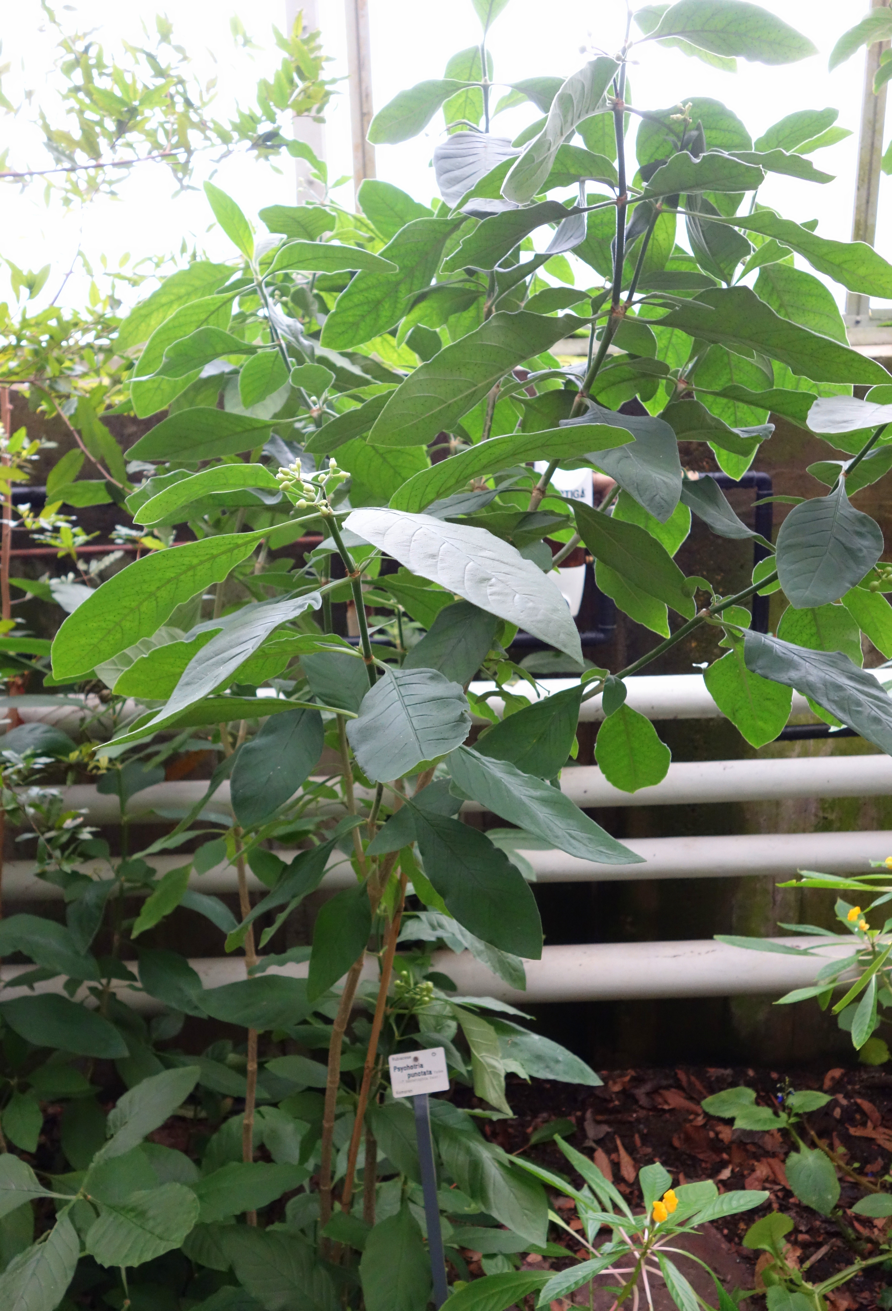 Botanical specimen in the Botanischer Garten, Dresden, Germany.